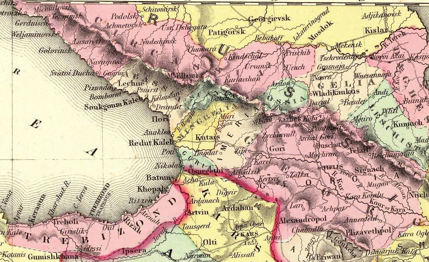 Turkey In Asia And The Caucasian Provinces Of Russia. Published By J.H. Colton & Co. No. 172 William St. New York. Entered ... 1855 by J.H. Colton & Co. ... New York. No. 25